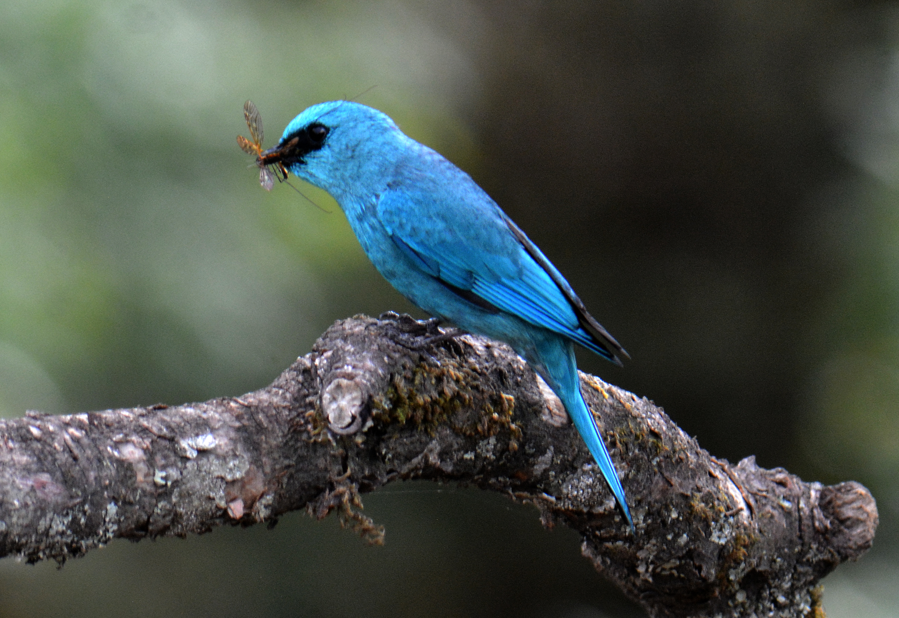 Verditer Flycatcher Eumyias thalassinus taken in Bhutan